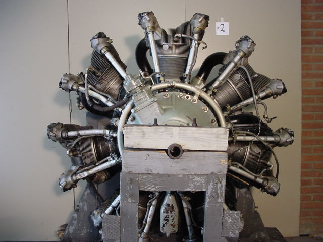 Antonov PZL-Kalisz ASz-61R 1000 hp 7 cylinder radial airplane engine